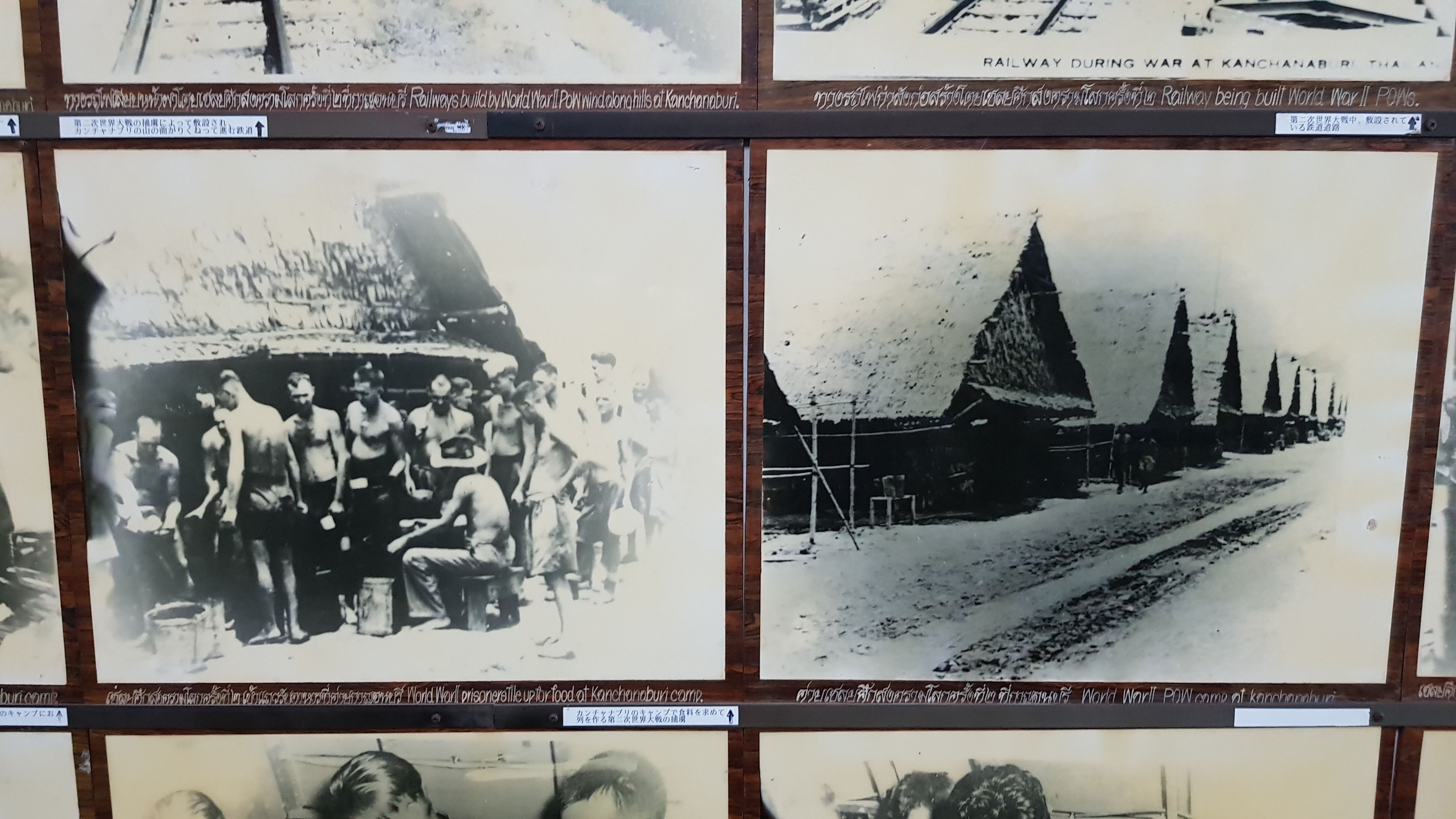 POW waiting for food.